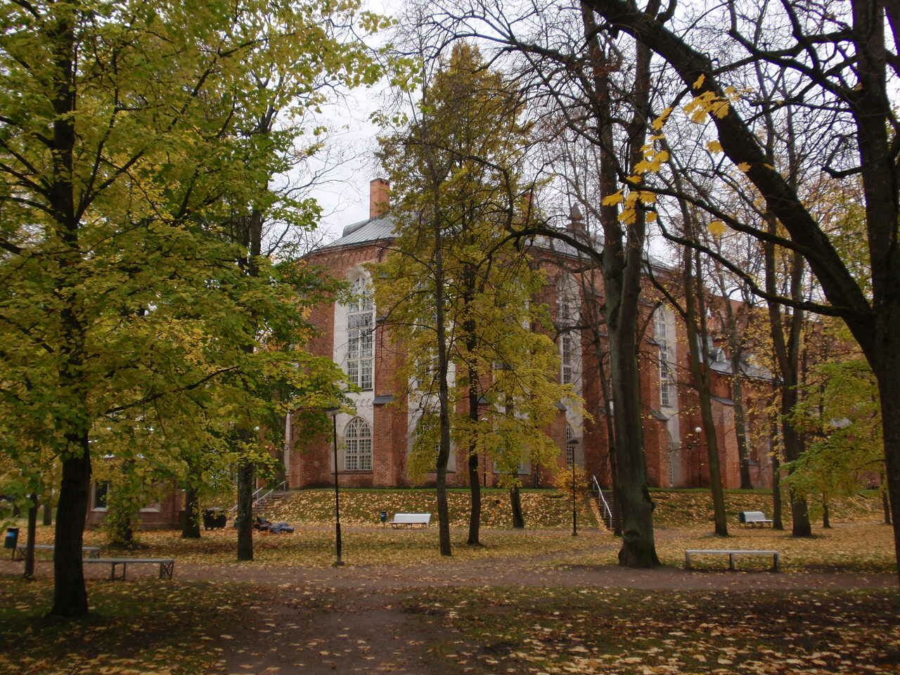 Tartu Catedral on Toomemägi, 2008.